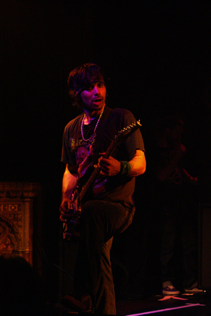 Guitarist Chad I Ginsburg performing with American alternative metal band CKY at the Colchester Arts Centre, Colchester, England on July 9, 2009.